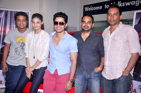 Anand Tiwari, Puja Gupta, Kunal Khemu, Krishna DK, Raj Nidimoru Promotions of 'Go Goa Gone' in association with Volkswagen